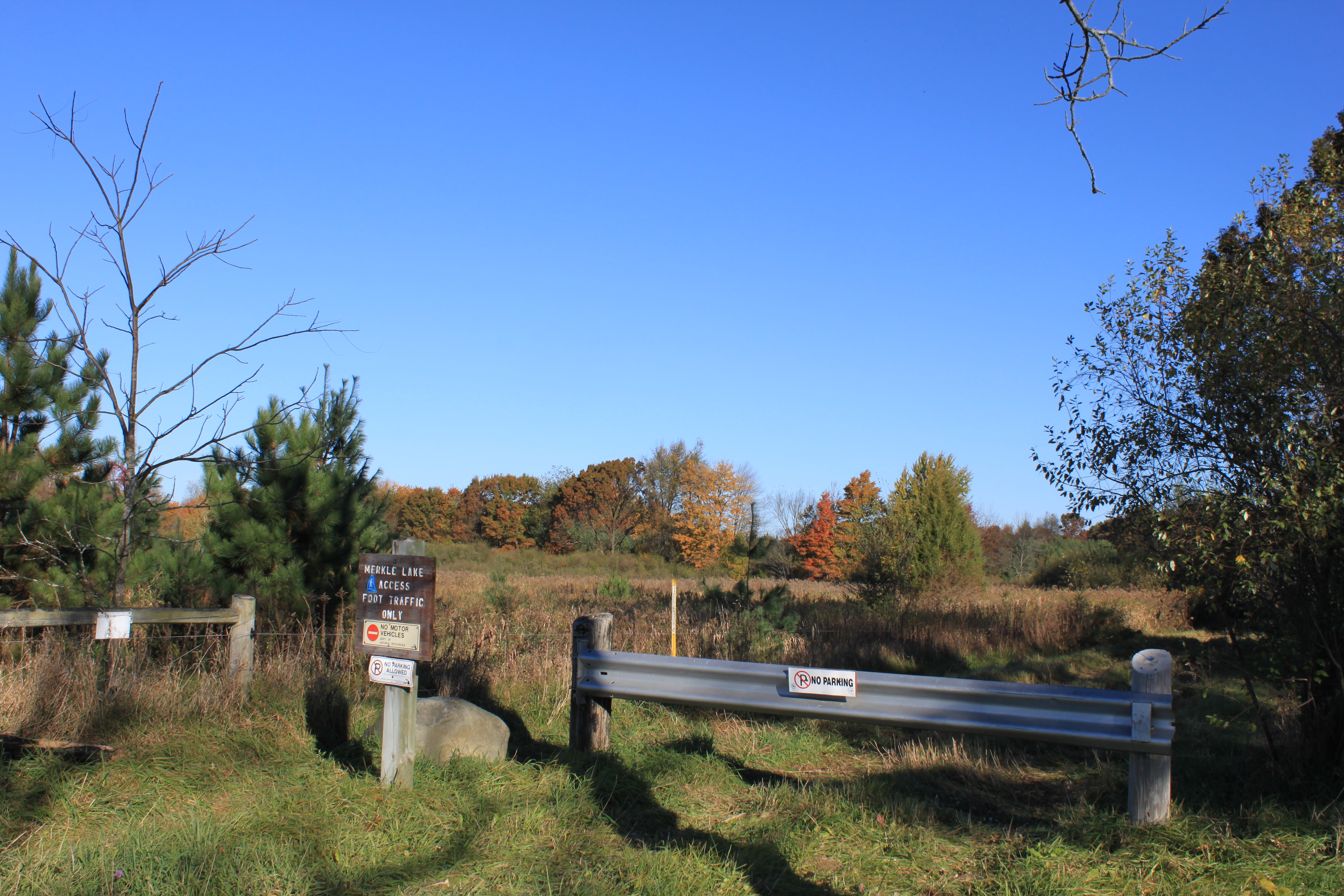 Waterloo State Recreation area Markla Lake access walking path, Waterloo Township, Michigan. The lake name is misspelled as 'Merkle' on the sign.